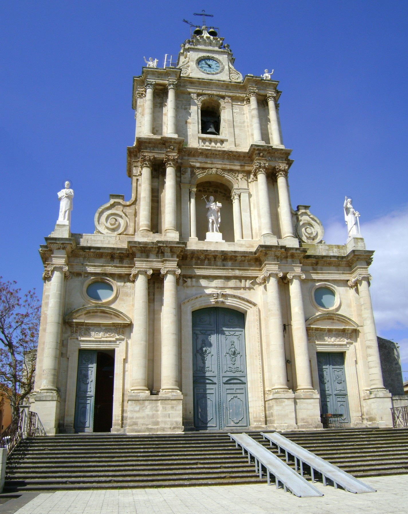 The church of St. John the Baptist, Monterosso Almo, Ragusa, Sicily